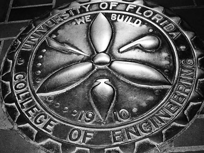 This seal is at the entry of Weil Hall on the University of Florida campus.